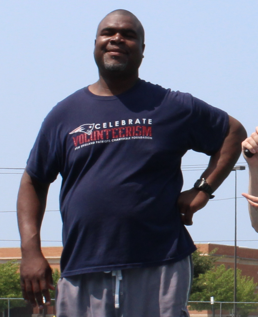 Chuck Wilson interviews Ed Ellis in Connecticut in July 2014